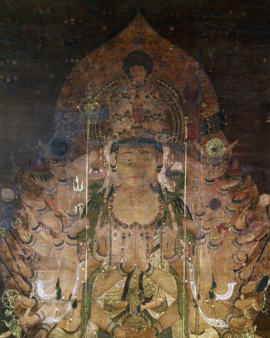 Senju Kannon (Sahasrabhuja) (絹本著色千手観音像, kenpon choshoku senjukannonzō) from the 12th century. Hanging scroll, 138.0 cm x 69.4 cm. Color on silk. Located at the Tokyo National Museum, Tokyo.